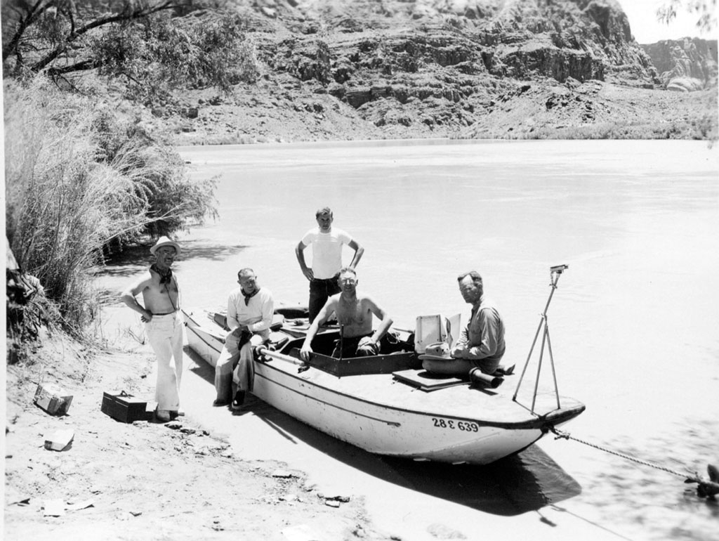 ED HUDSON'S RIVER PARTY AT LEE'S FERRY PREPARING FOR THE FIRST MOTOR BOAT TRIP THROUGH GRAND CANYON TO LAKE MEAD. LEFT TO RIGHT, OTIS MARSTON, WILSON TAYLOR, ED HUDSON, JR., ED HUDSON SR,. AND BESTOR ROBINSON.